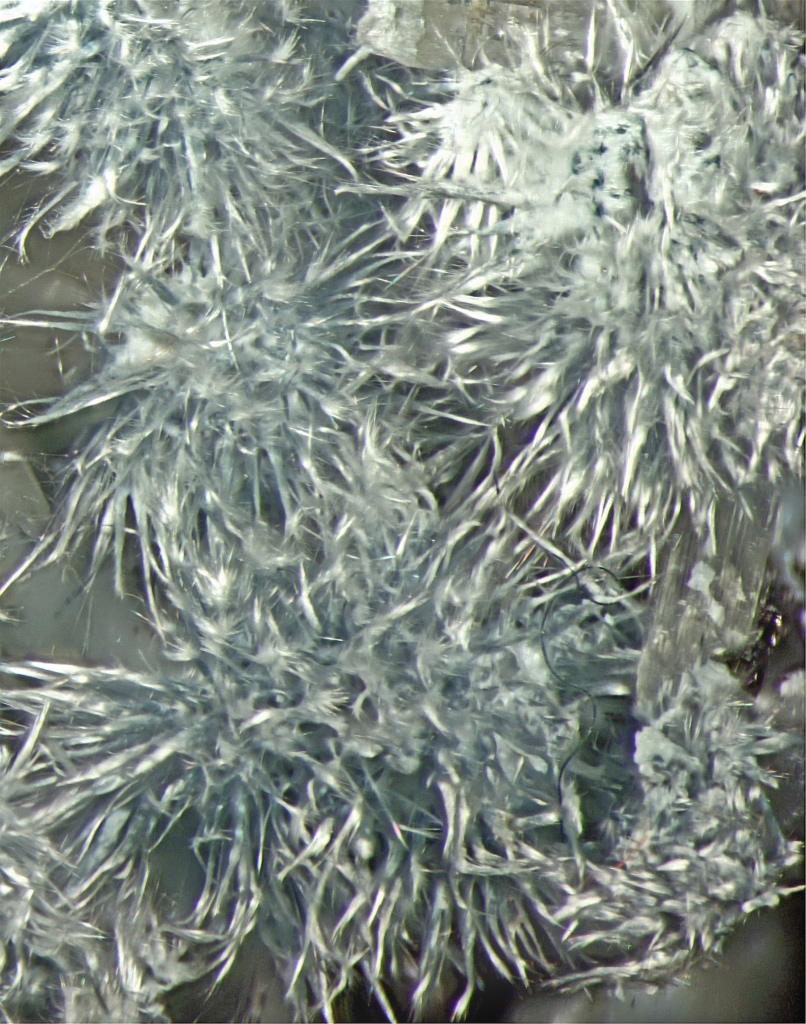 Riebeckite (FOV ~ 4.5 x 5.7 mm) Locality: Poudrette quarry (Demix quarry; Uni-Mix quarry; Desourdy quarry), Mont Saint-Hilaire, Rouville RCM, Montérégie, Québec, Canada